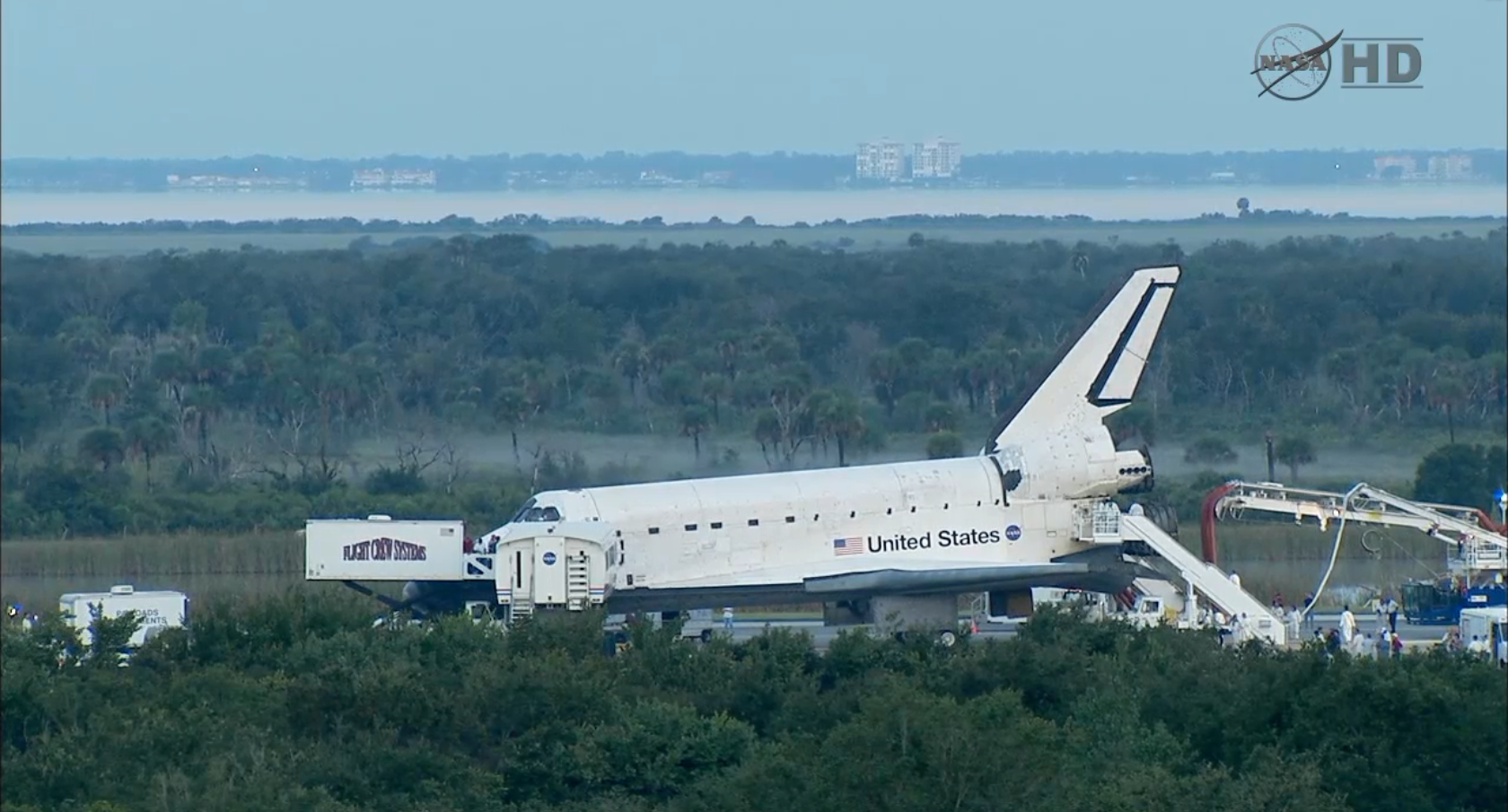 STS-135 thirty minutes after touchdown